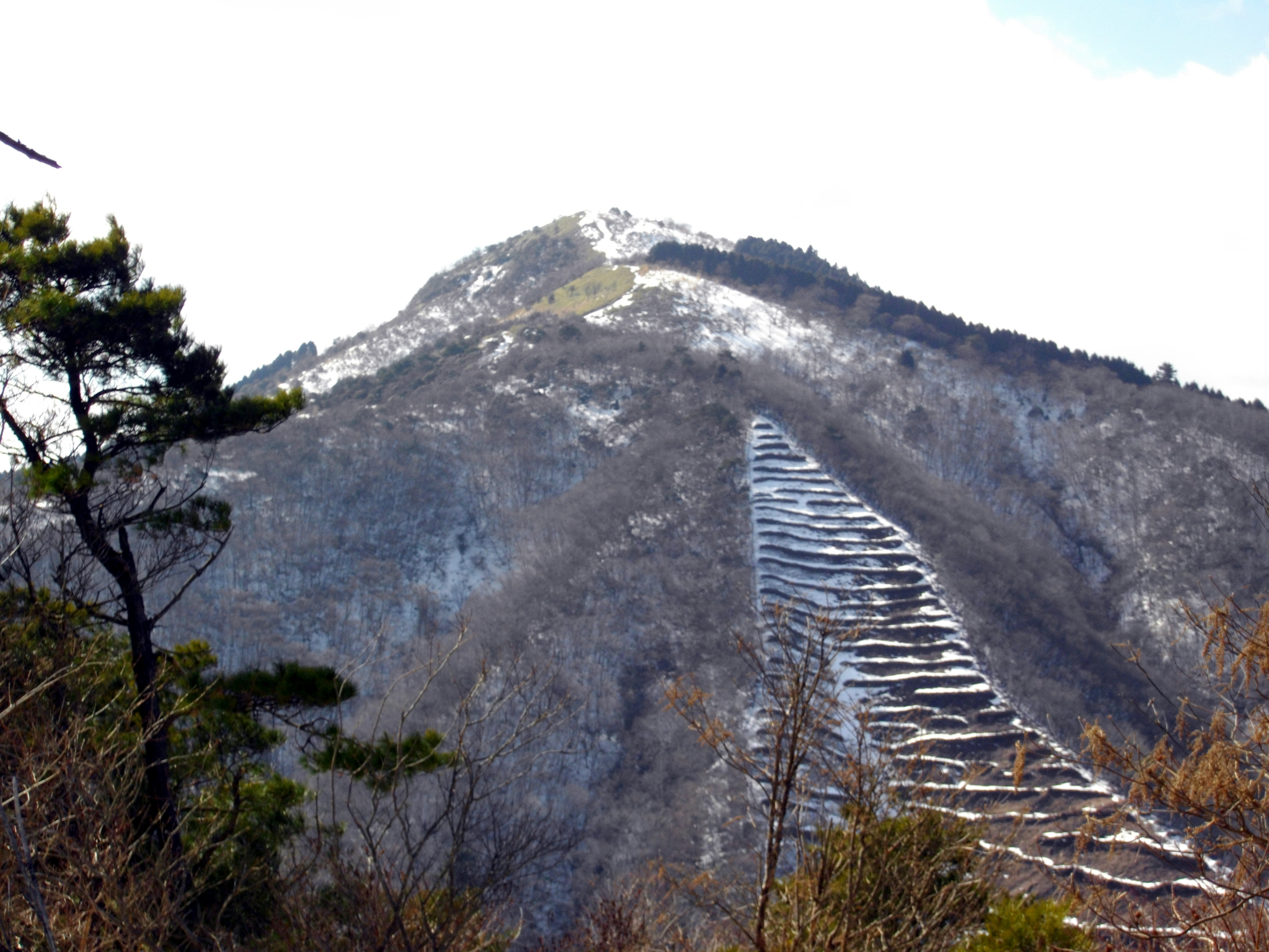 The top of Mount Sengamine (千ヶ峰) from north in Hyogo Prefecture, Japan.